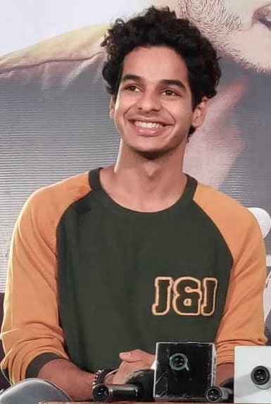 Ishaan Khatter and Janhvi Kapoor promoting Dhadak in 2018